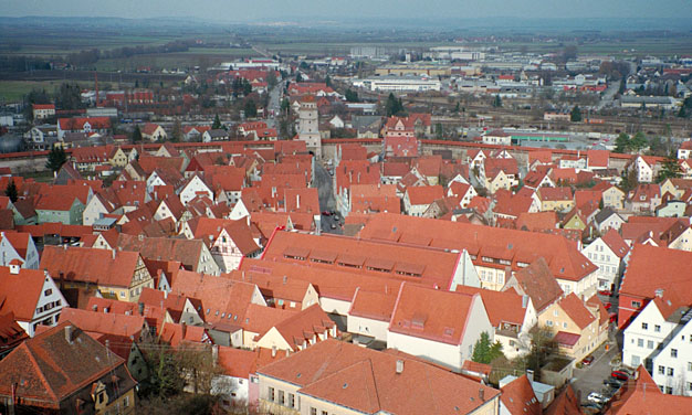 Nördlingen photo from Daniel.